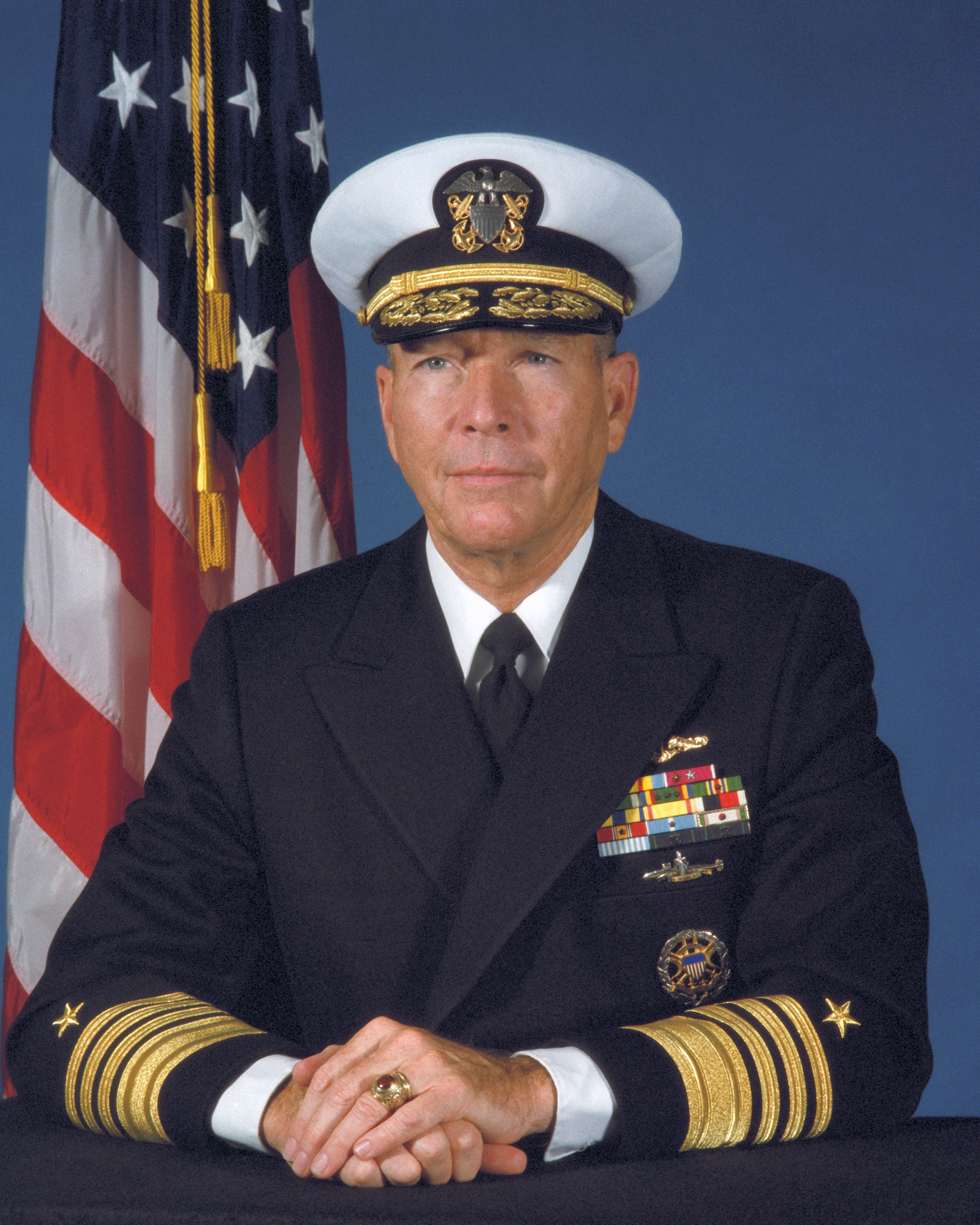 Admiral Powell F. Carter, Jr.